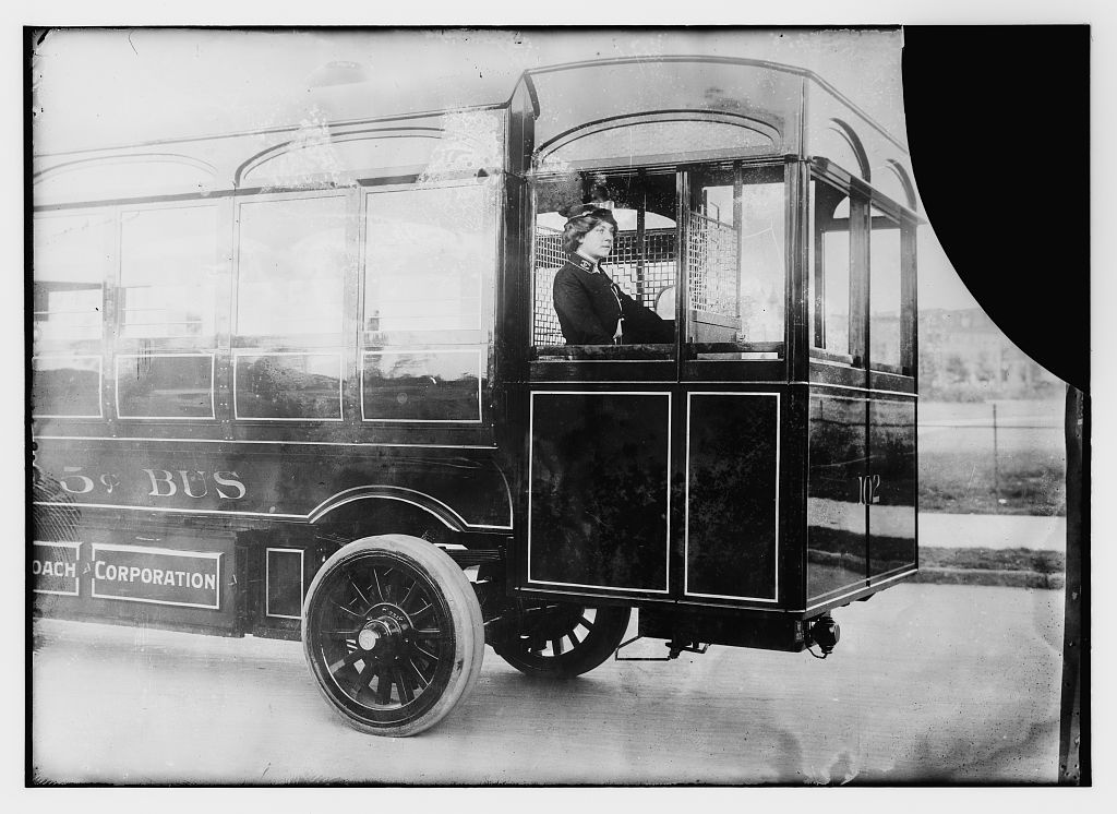 Coach Corporation using an Edison electric bus from 1915